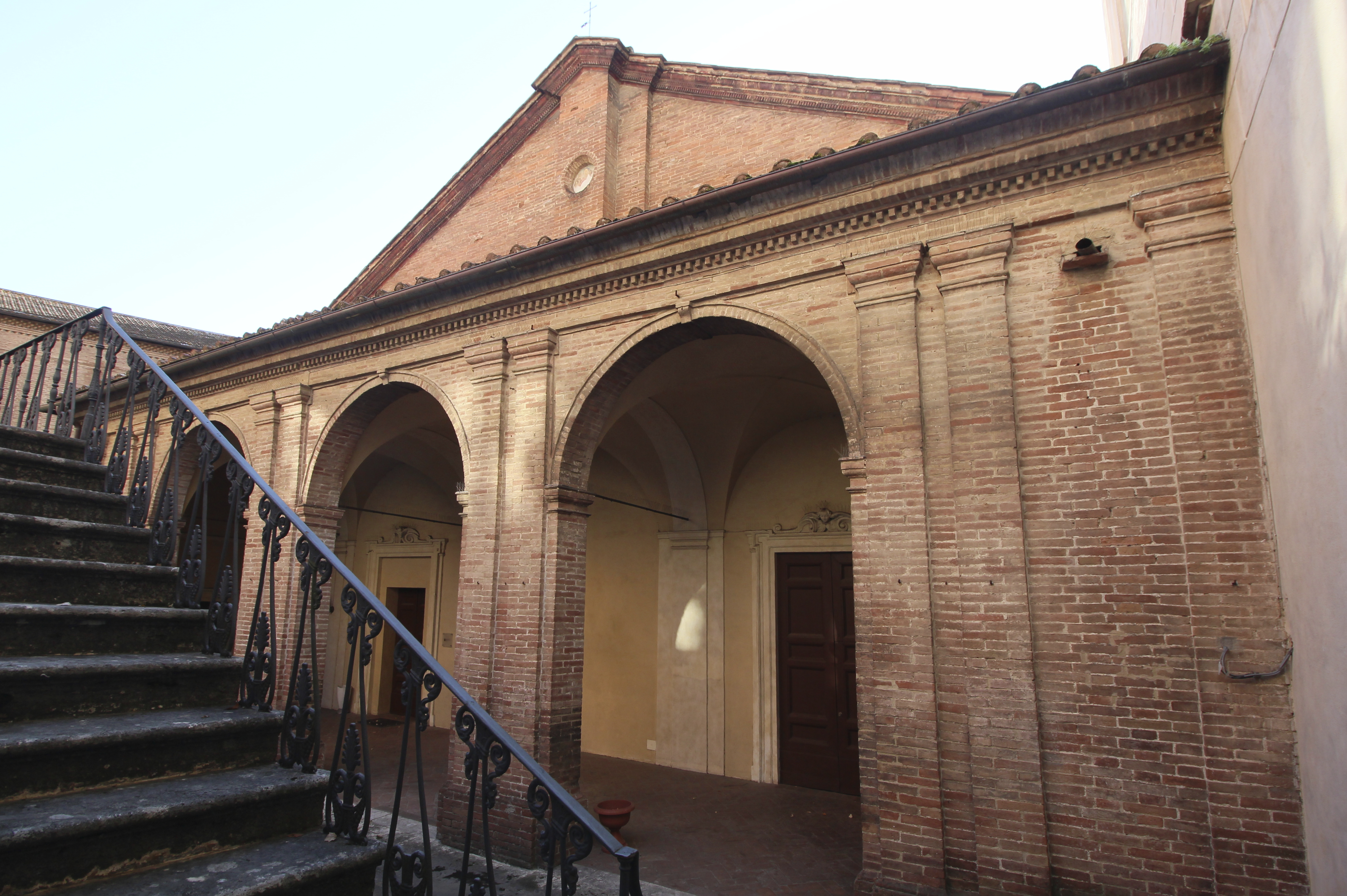 San Sebastiano, church in Siena, Via Garibaldi, Terzo di Camollia, Province of Siena, Tuscany, Italy